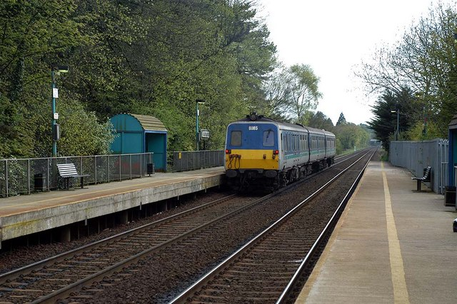 Derriaghy railway station Original description: Derriaghy Station A 3 car railcar set passing Derriaghy for Lisburn